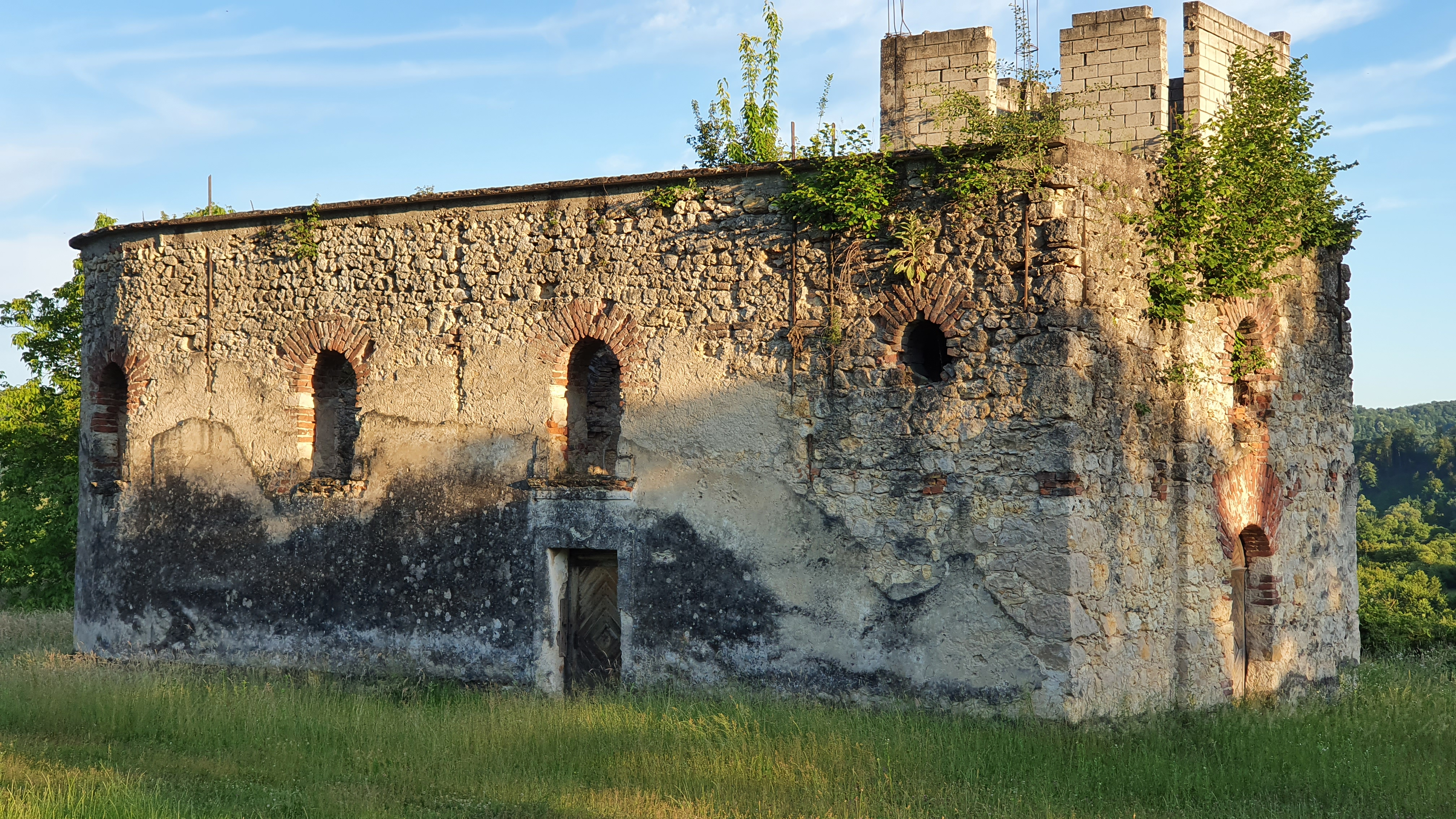 North side of the Church of Saint Parascheva in Slabinja, Sisak-Moslavina County, Croatia